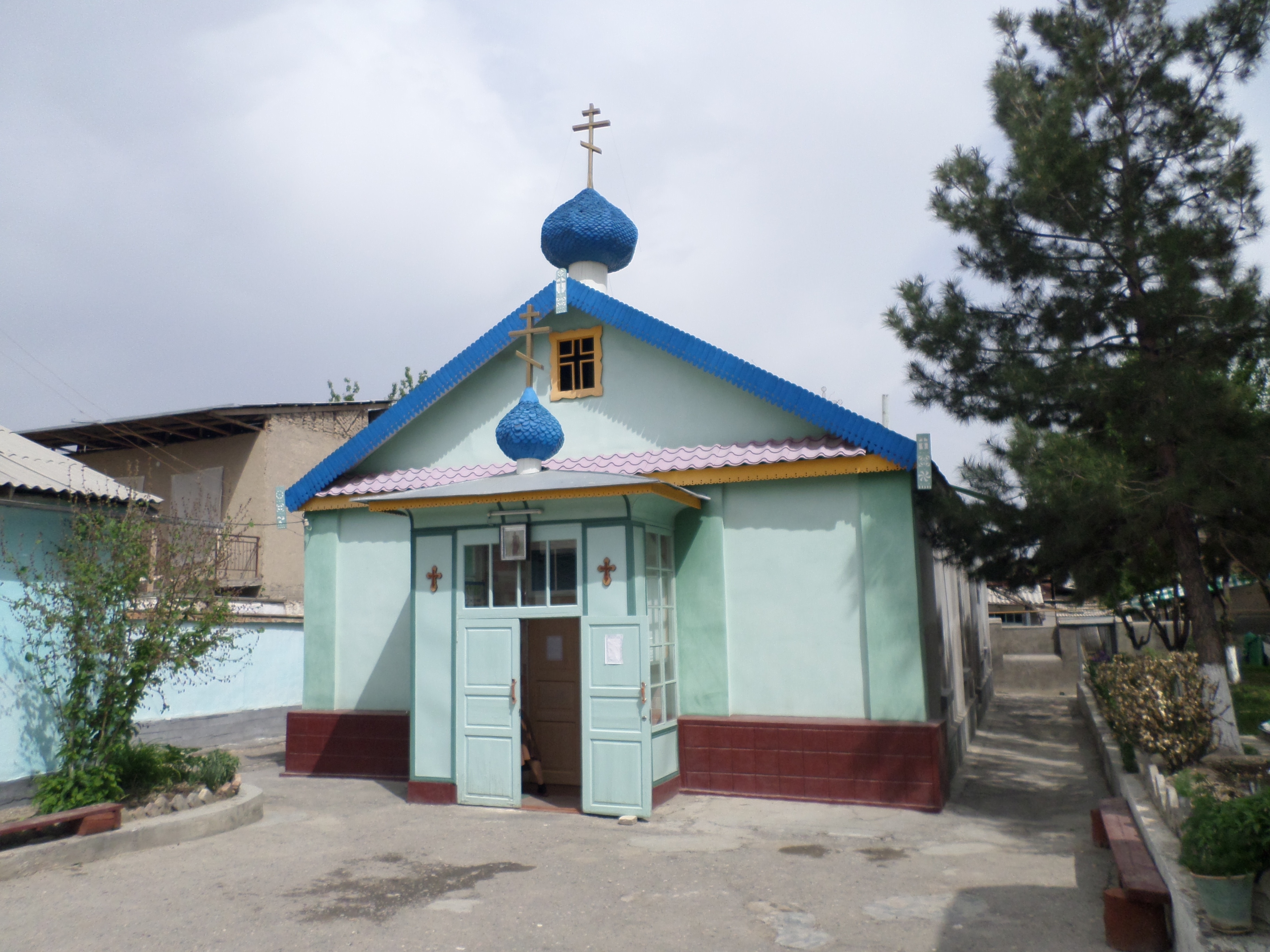 Church of St. Archangel Michael in Namangan